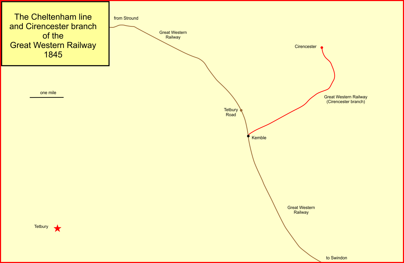 Map of the Cirencester branch line railway of the former Cheltenham and Great Western Union Railway in 1845, England